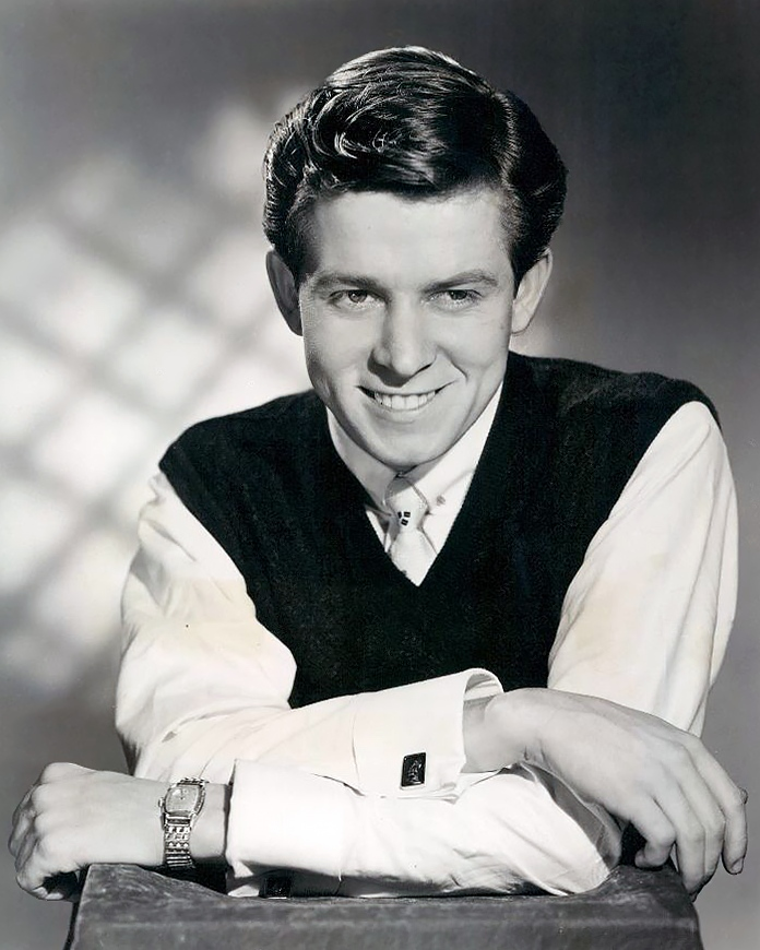 Vocalist Charlie Applewhite. The item has no copyright markings on it as can be seen in the links above.